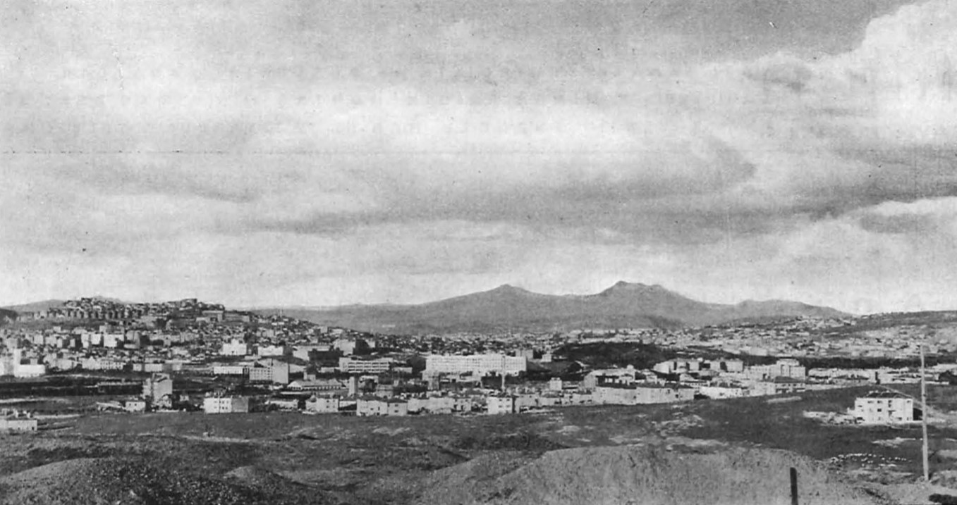 View of Ankara from Rasattepe.